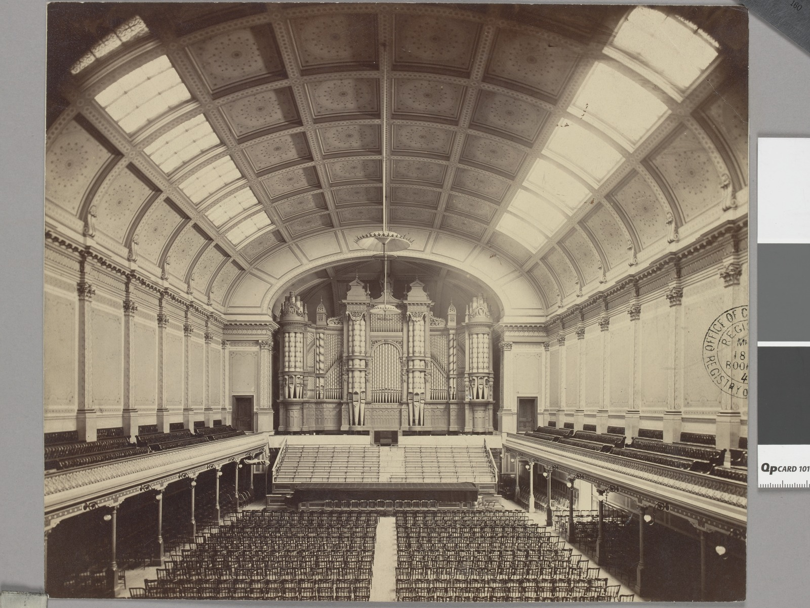 Albumen photograph of interior of the Melbourne Town Hall, featuring the Grand Organ at the front of the hall.